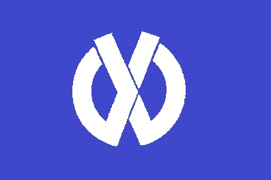 Flag of Kaita Hiroshima